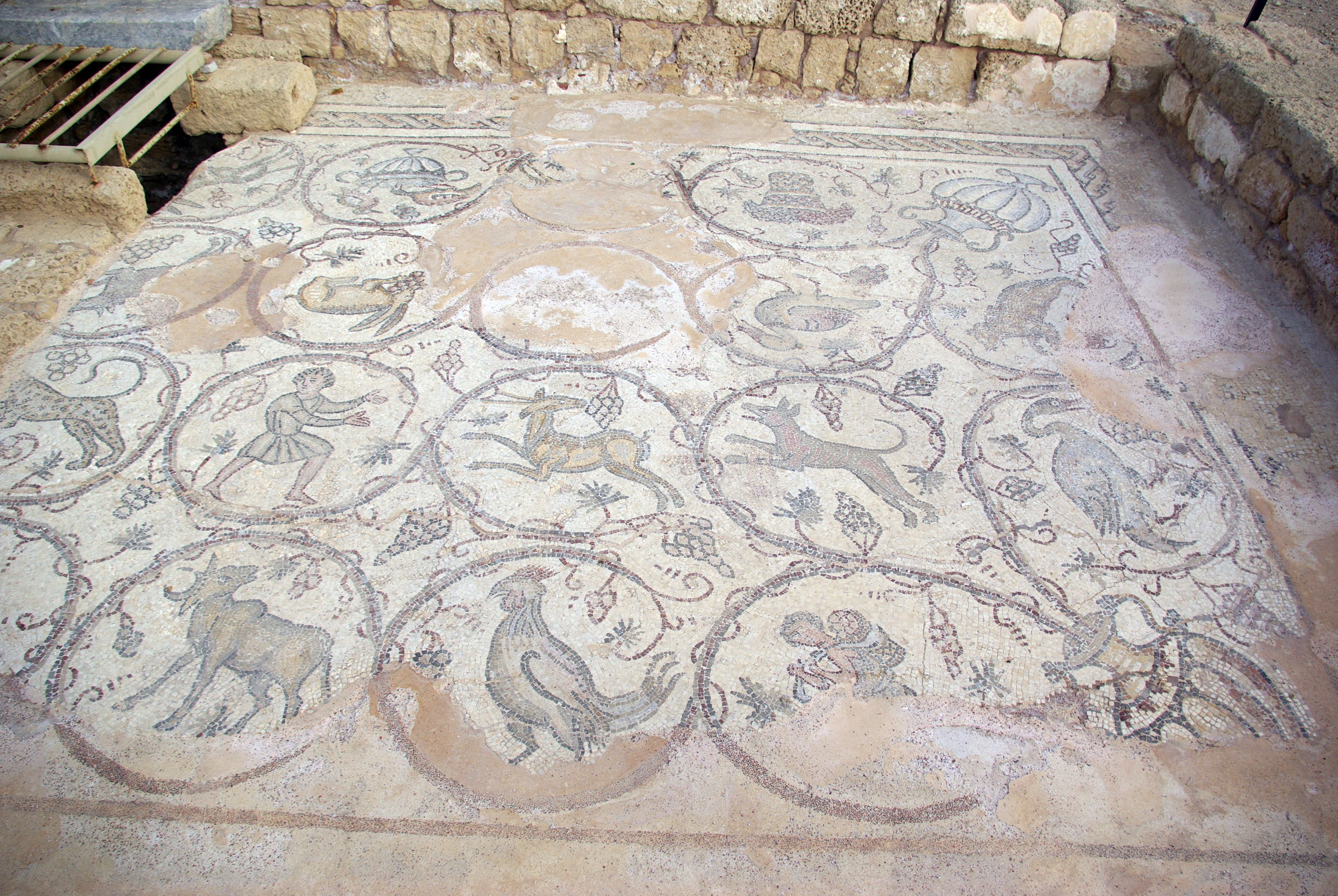 Caesarea maritima, mosaic floor